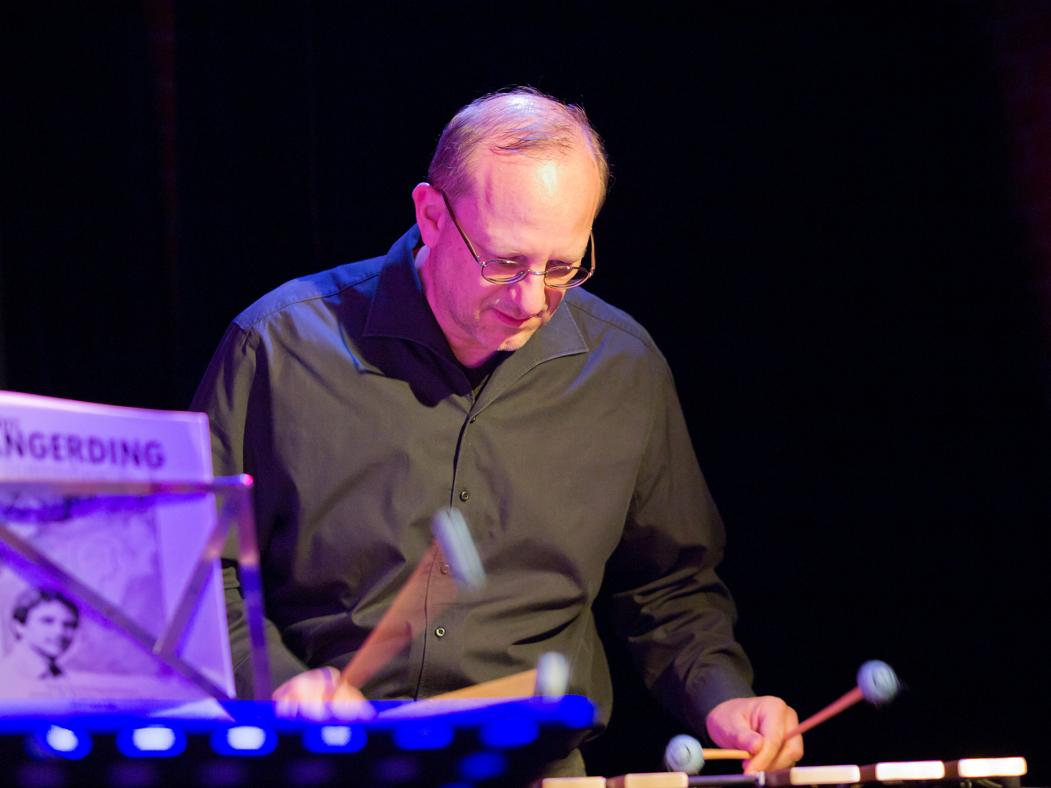 Wolfgang Lackerschmid, Jazz vibraphonist; Picture taken in Jazz Club Unterfahrt, Munich/Bavaria